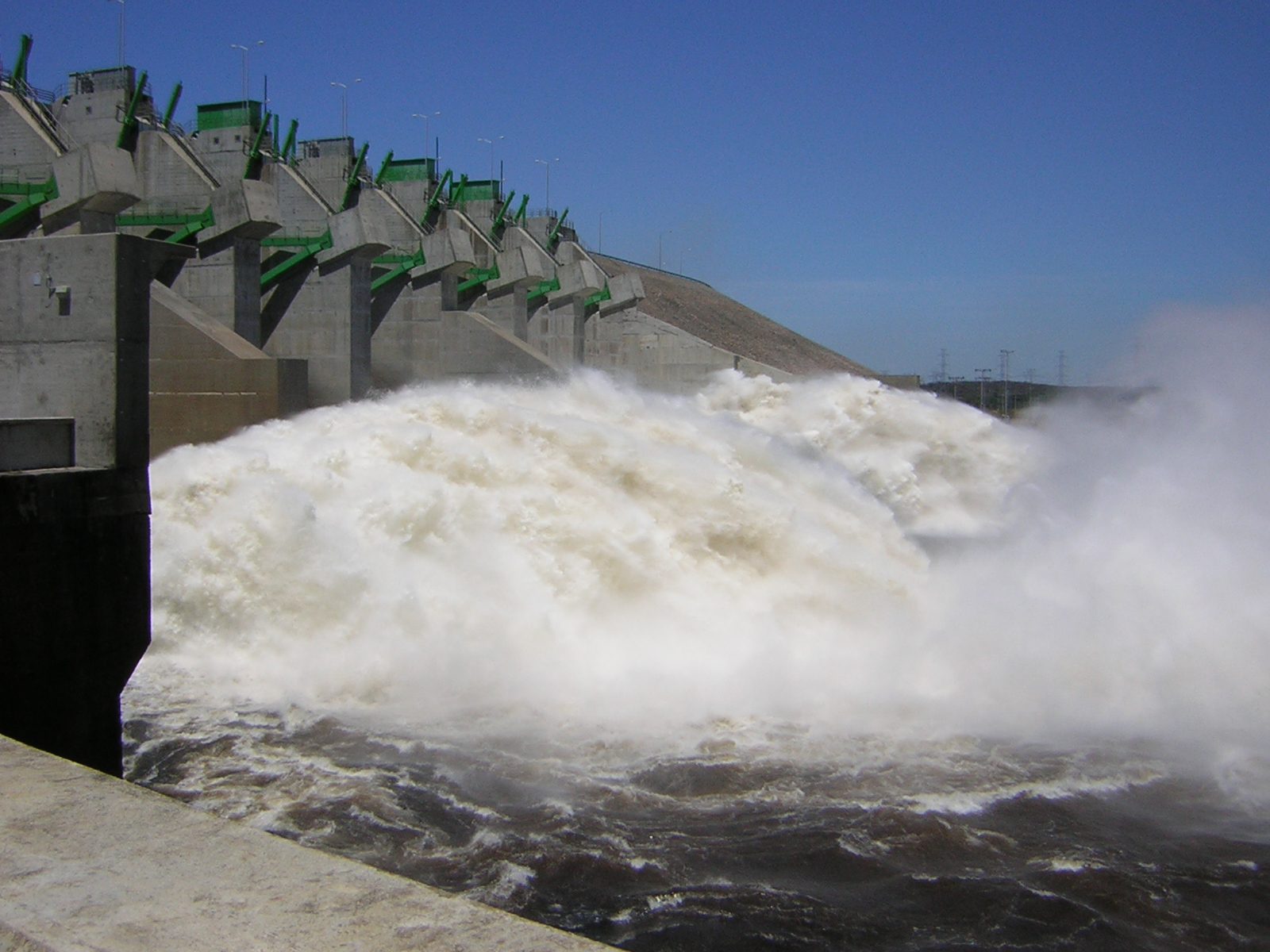 Spilling detail in the 2160MW Caruachi Dam in Venezuela, also called "Francisco de Miranda".